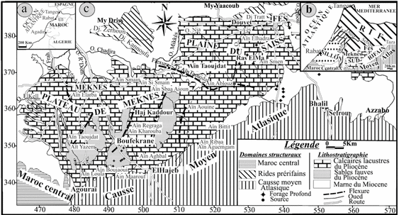 This image shows the geographical structure of the Saïss plain in central north of Morocco.